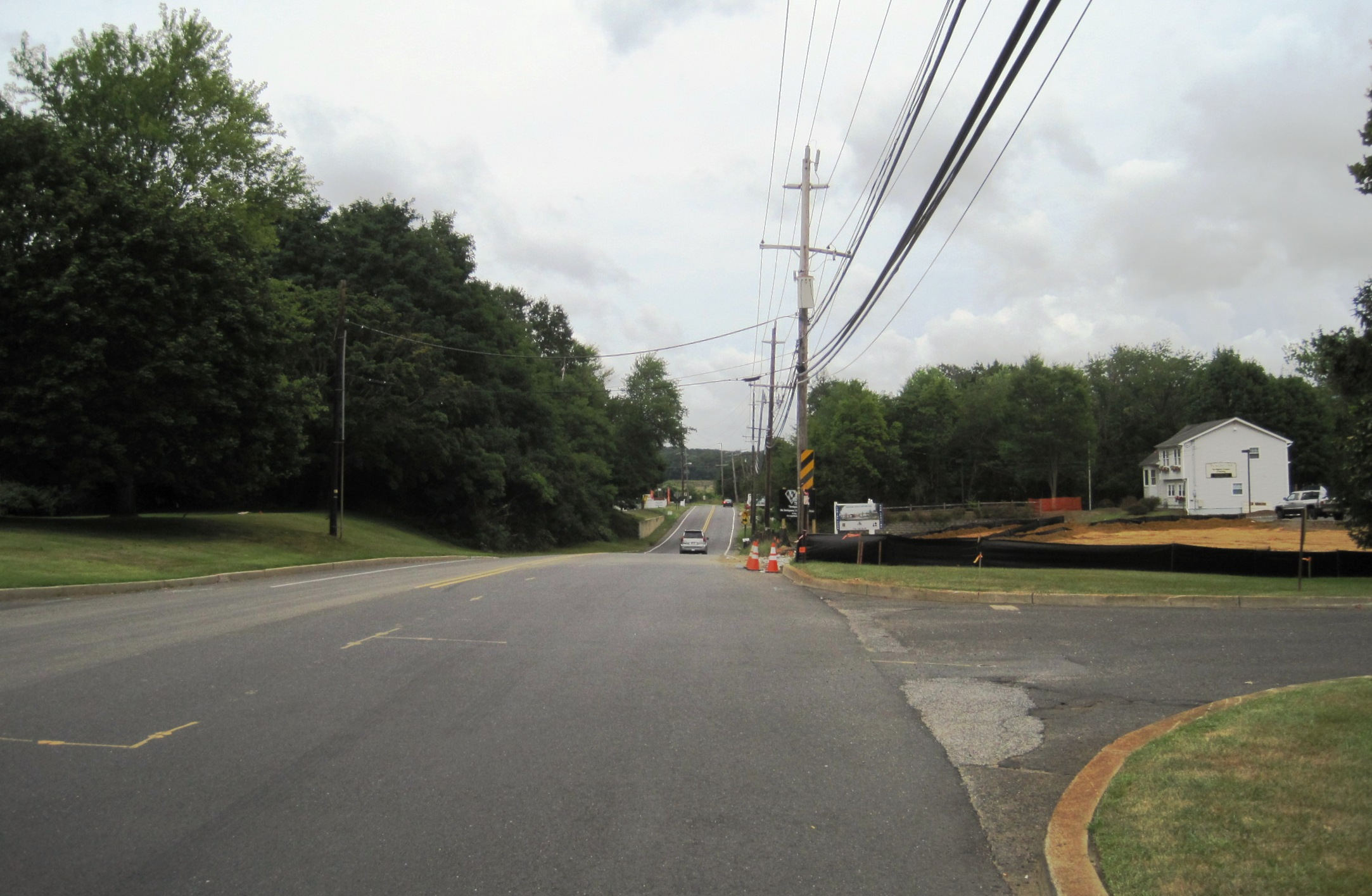 Photo of Bradevelt, New Jersey, an unincorporated community within Marlboro Township. Photo taken along eastbound Newman Springs Road (County Route 520) at Osprey Court.